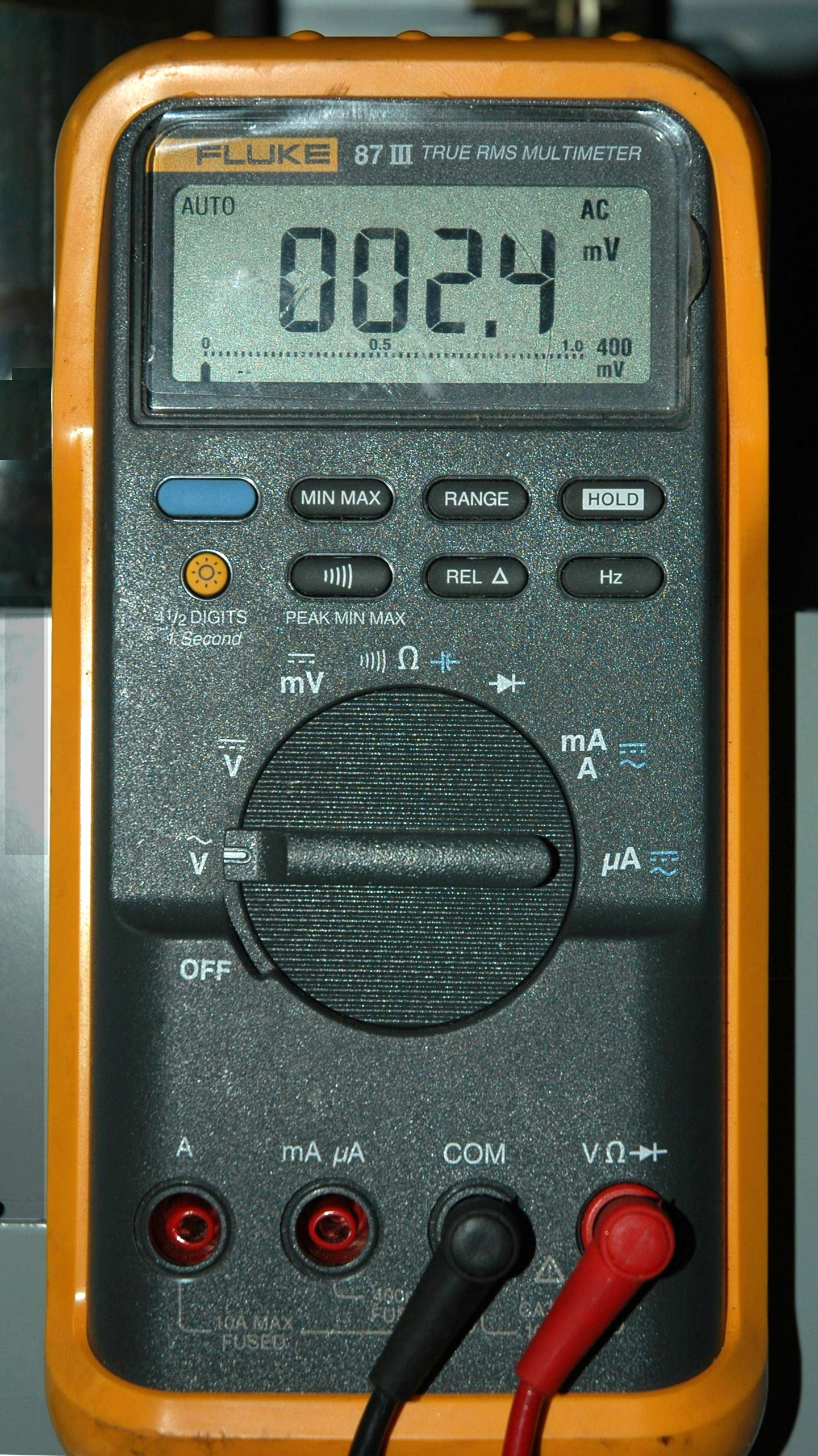 Fluke 87 III True RMS Multimeter. A cropped copy of Fluke 87 III True RMS Multimeter.jpg